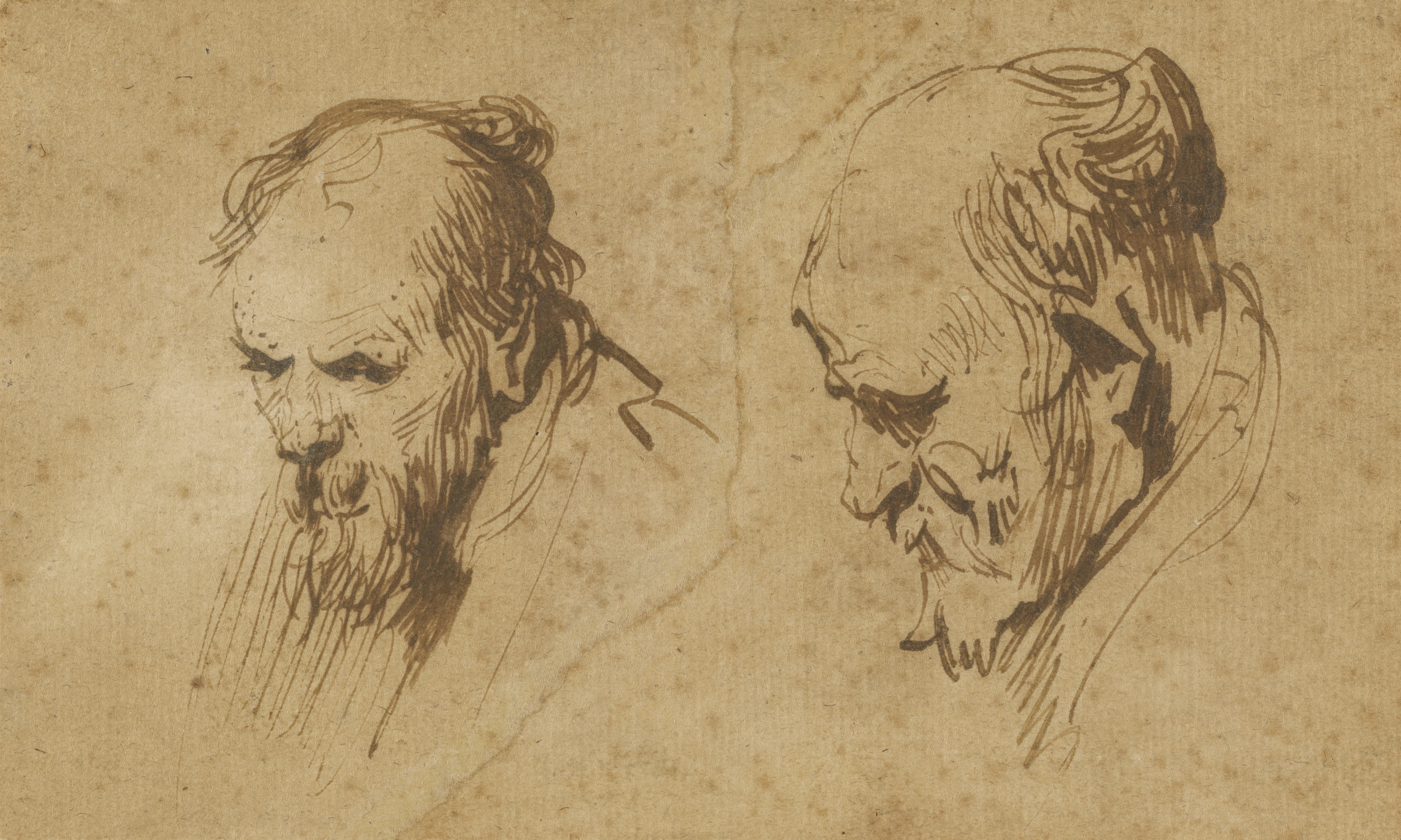 Two Studies of the Head of an Old Man; Rembrandt Harmensz. van Rijn (Dutch, 1606 - 1669); 1626; Pen and brown ink, torn down the center and rejoined; 9 x 14.9 cm (3 9/16 x 5 7/8 in.); 83.GA.264